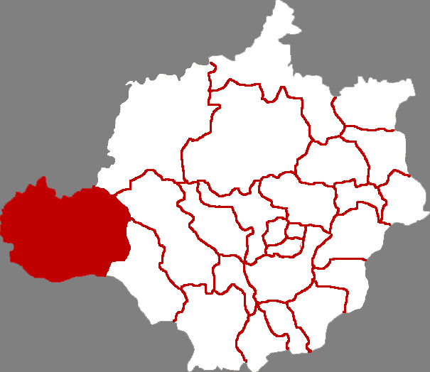 Location of Fuping county in Baoding City, China